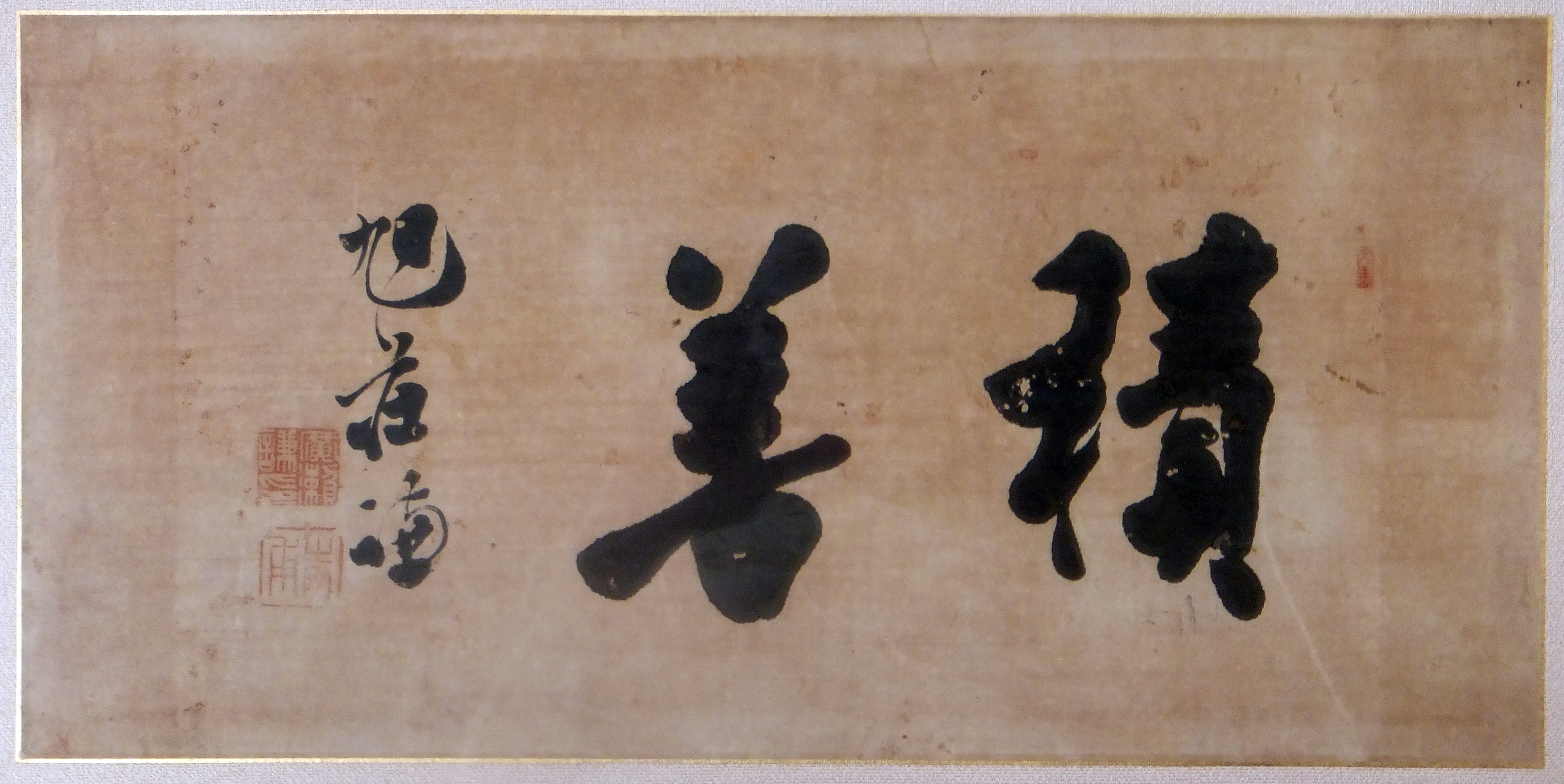 Calligraphy (sekizen = accumulation of good deeds) by the Japanese Neo-Confucianist and poet Hirose Gyokusō (1807-1863). Private Collection.